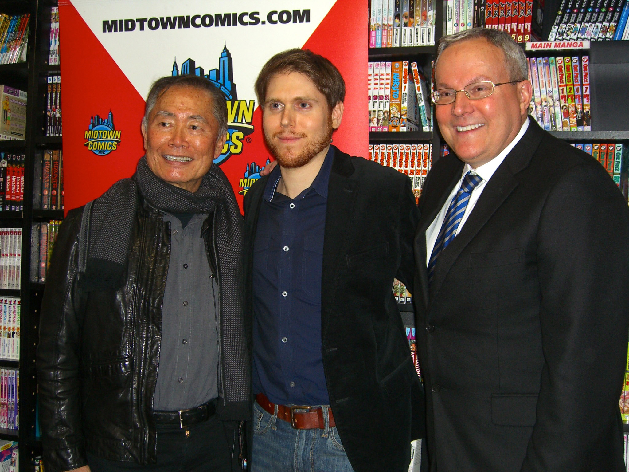 Star Trek actor George Takei and his husband, Brad Altman (right), posing with a fan (center) at Midtown Comics Times Square in Manhattan, at a December 5, 2012 signing for Archie's Pal Kevin Keller #6. That series stars Kevin Keller, the first openly gay character to appear in Archie Comics, and issue #6 guest stars Takei, an LGBT rights activist. This photo was created by Luigi Novi. It is not in the public domain, and use of this file outside of the licensing terms is a copyright violation.